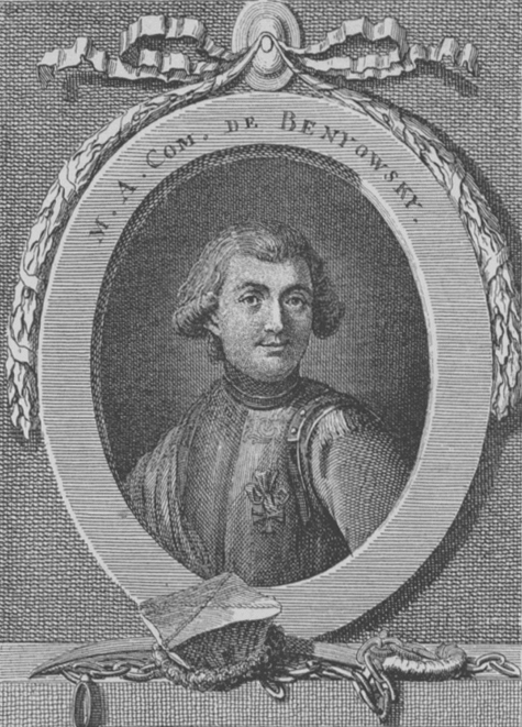 18th century engraving of Maurice Benyovszky.